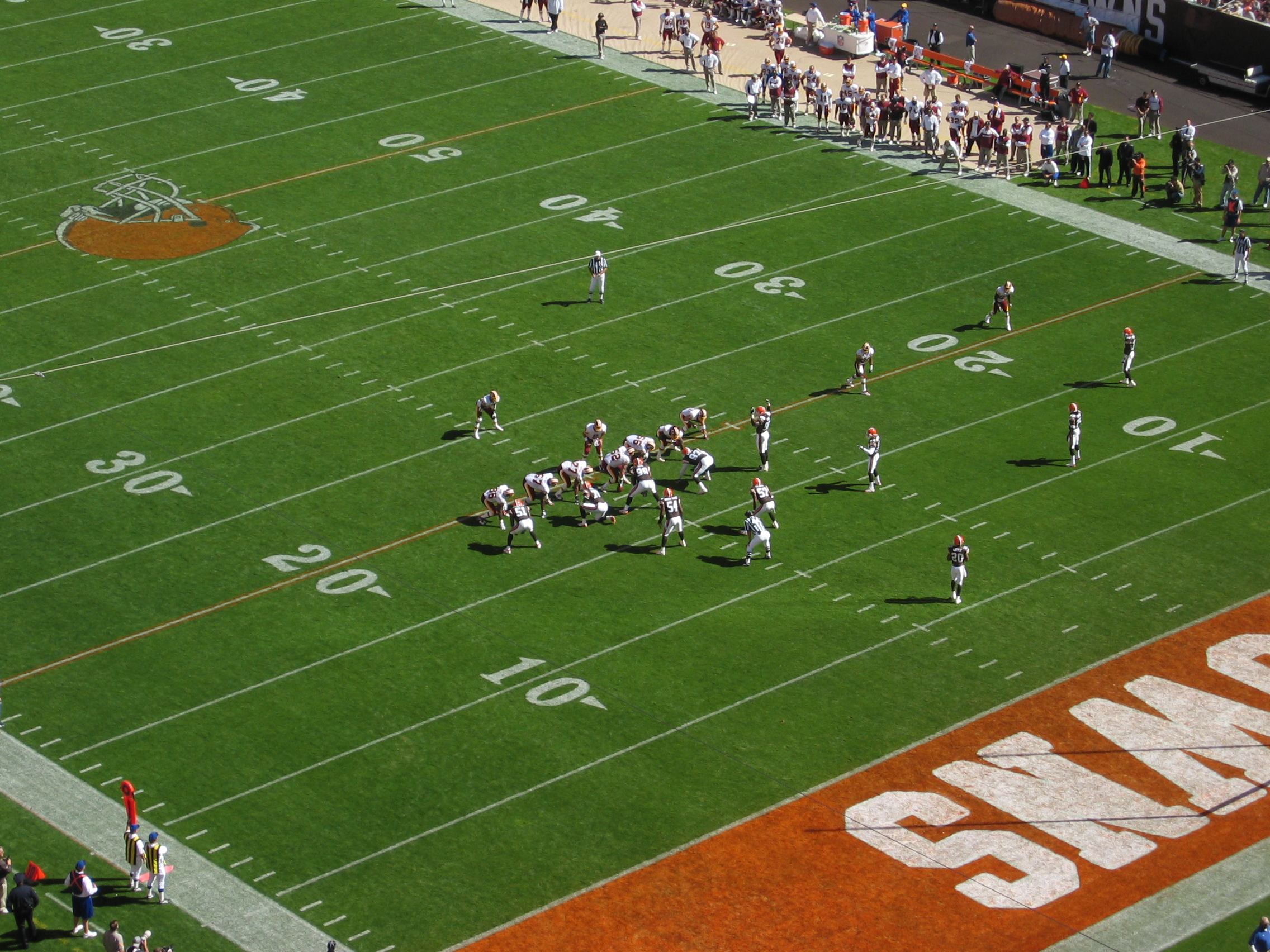 The Cleveland Browns American football team.